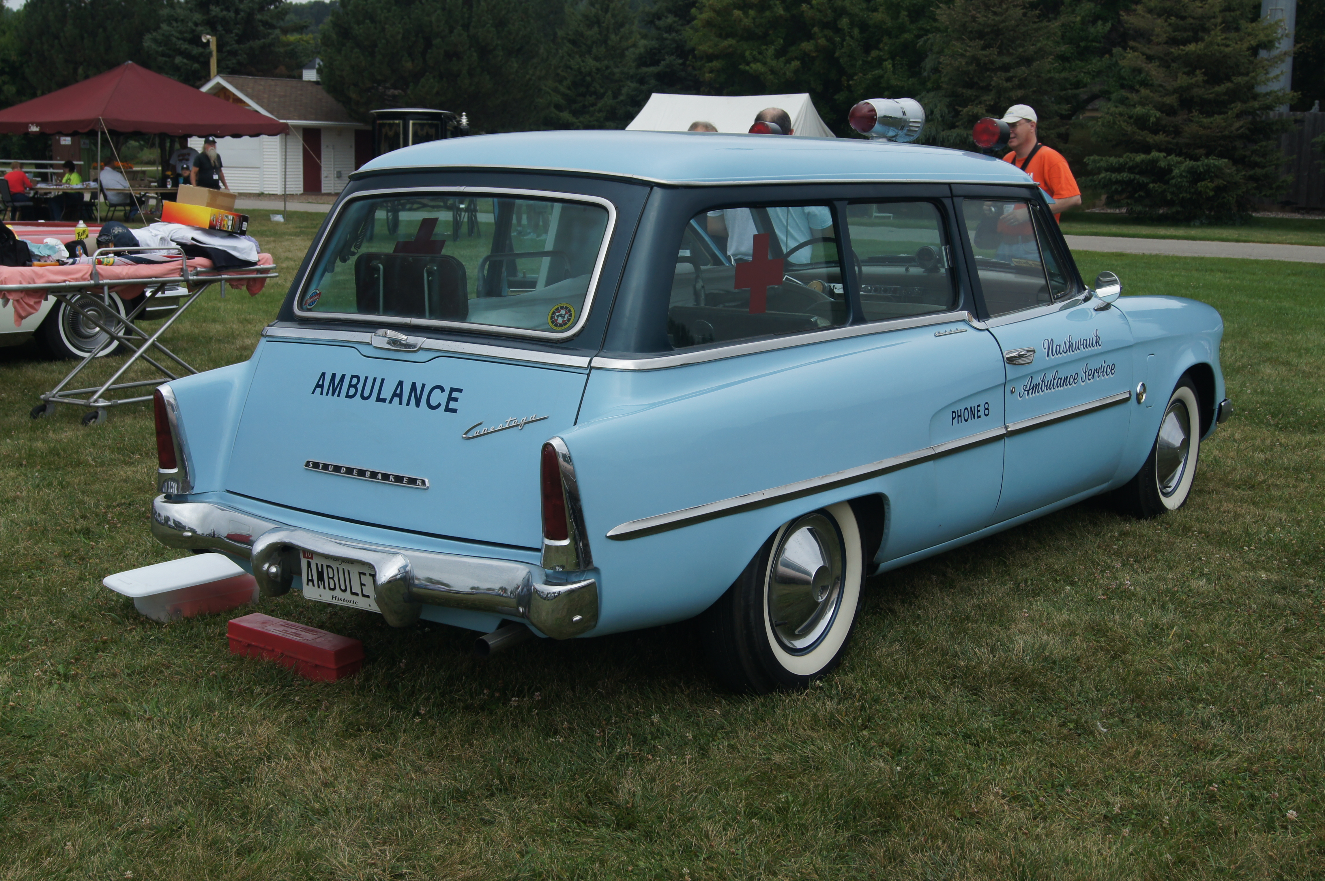 1954 Studebaker Commander Conestoga Ambulet Ambulance